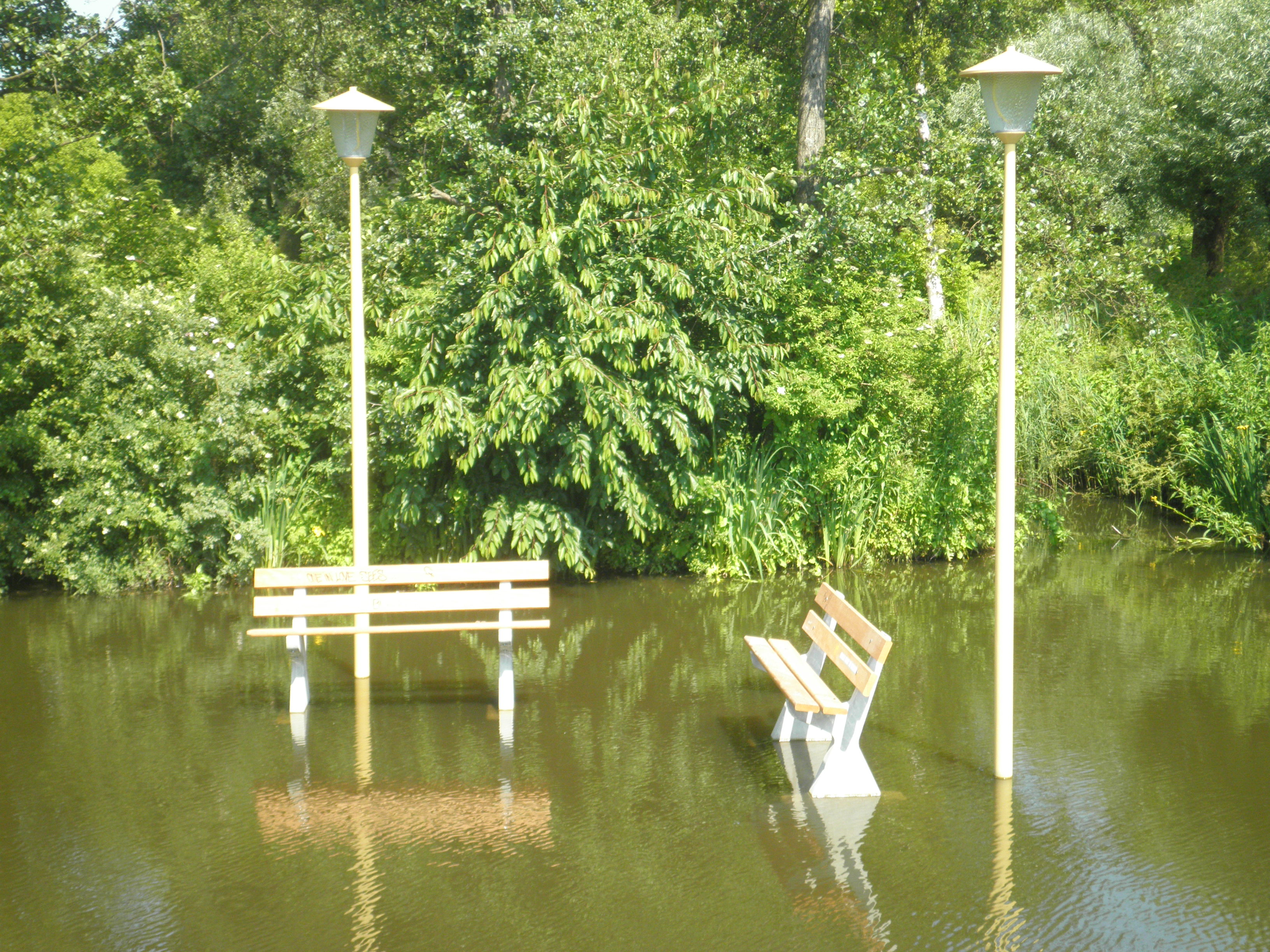 Sculpture in Blokker (Hoorn, North Holland) called One in love sees a flower differently than a camel does. It is placed in a park called Het Blokkerse Veld. Made by Kathrin Schlegel